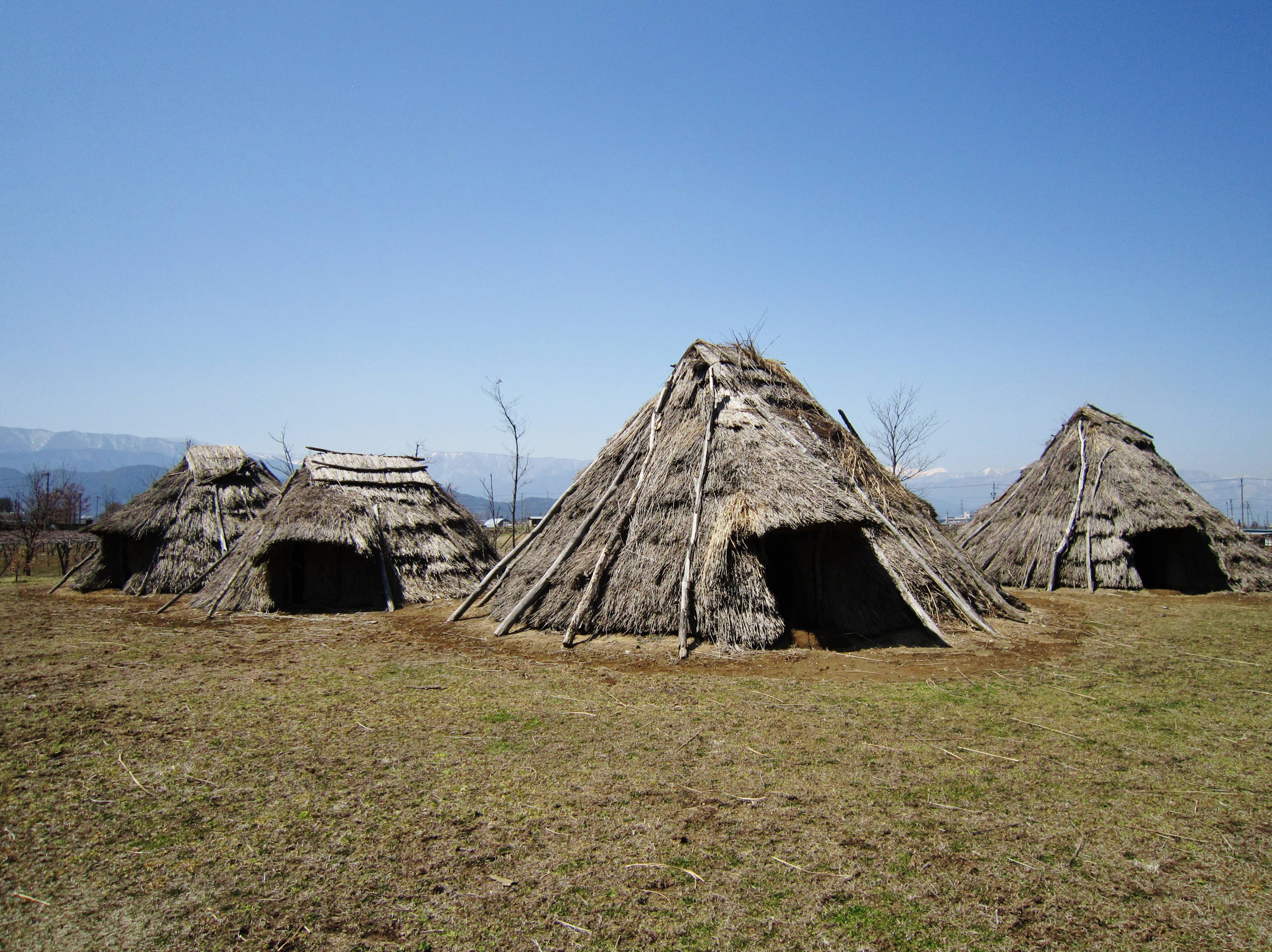 Hira-ide Historic Site Park reconstructed Jōmon period (3000 BC) houses.